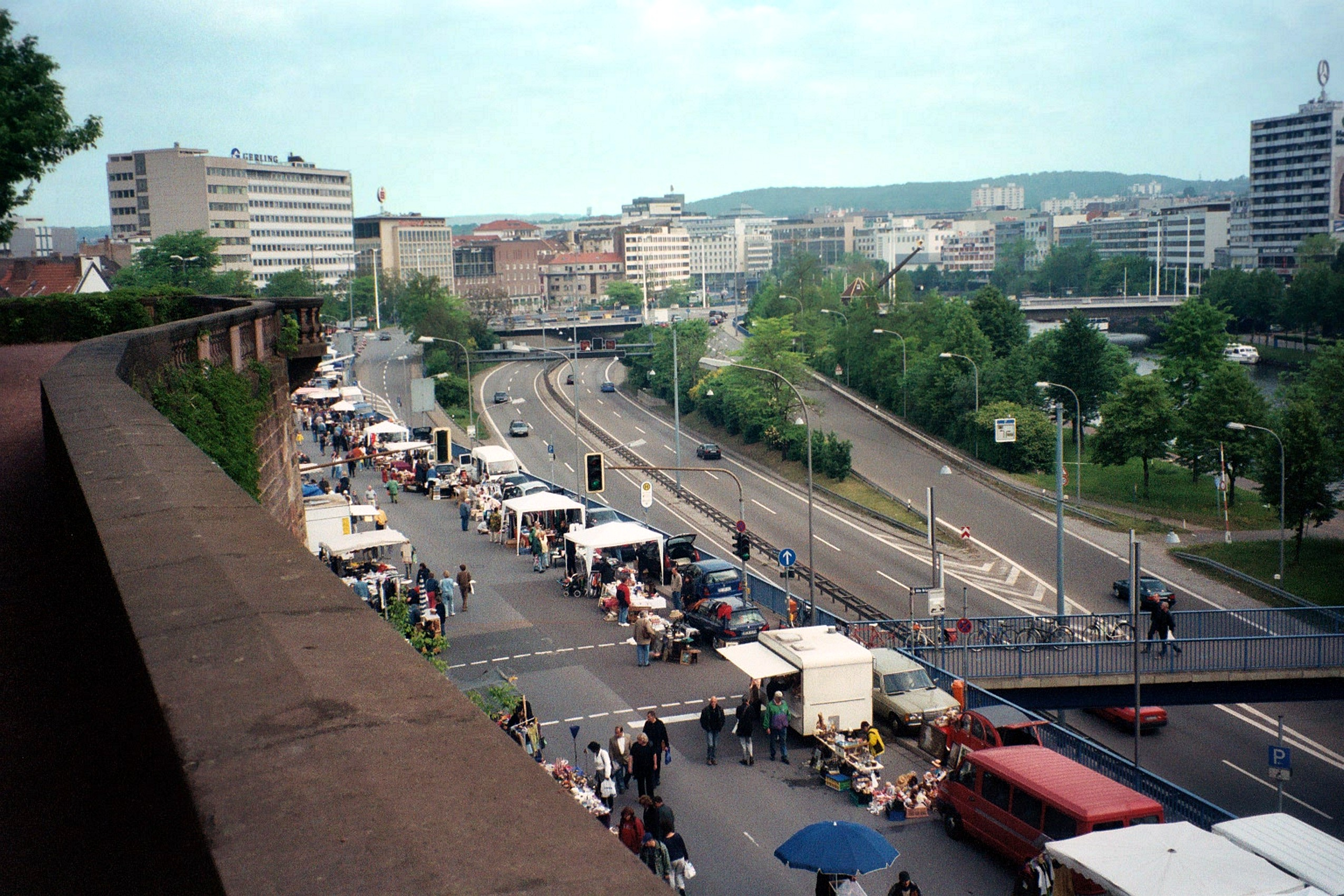 Saarbrücken, the city highway